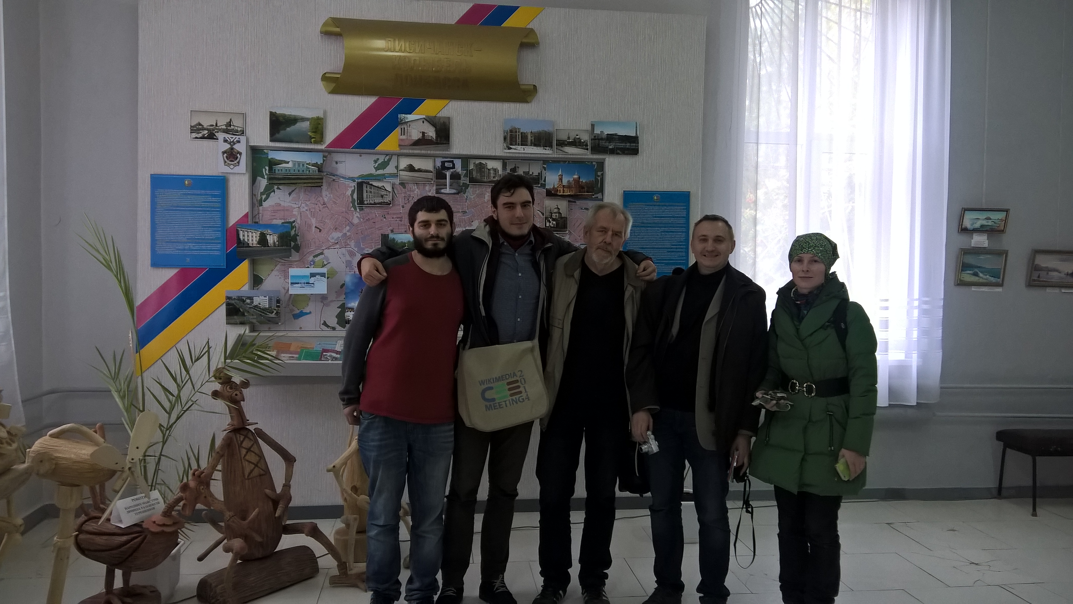 Mykola Lomako, Ukrainian architect, main architect of the city of Lysychansk (Luhansk oblast, Ukraine), scientific worker of the Lysychansk city country learning museum. Joint photo with Wikipedians at the Museum.